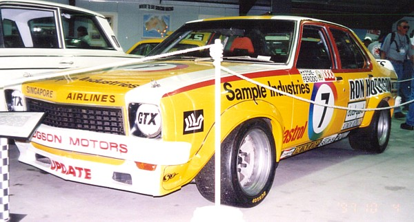 Bob Morris' 1976 Bathurst 1000 winning Holden Torana at the Bathurst museum